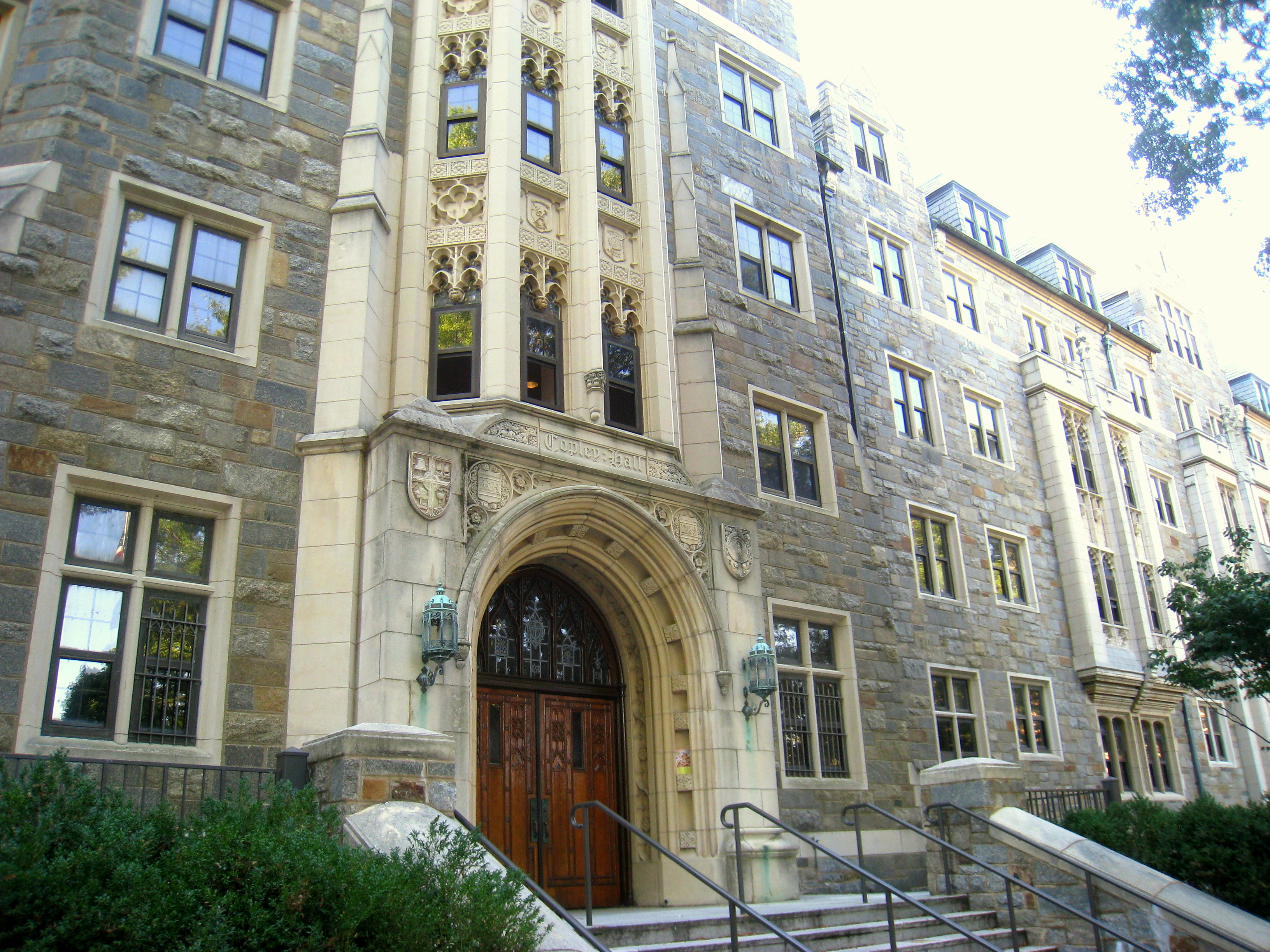 Georgetown University, Washington, DC, USA.